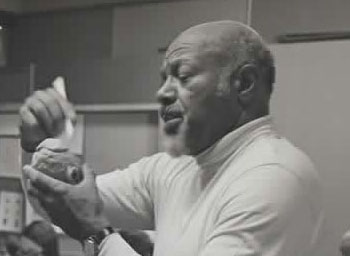 Oliver LaGrone volunteered his time and talent to teach a month-long series of sculpting classes to the children of the church school of the Unitarian Church of Harrisburg, Pennsylvaia; EPSON MFP image